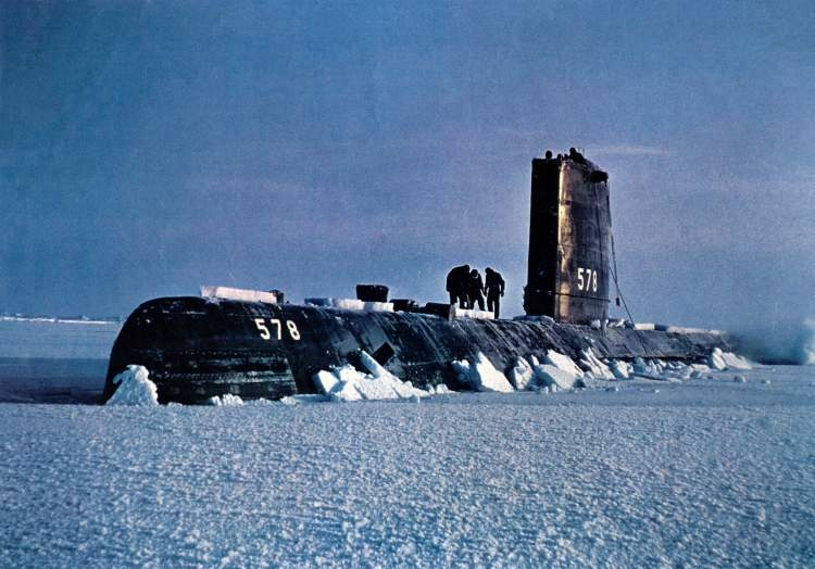 USS Skate (SSN-578) having surfaced in the Arctic in 1959